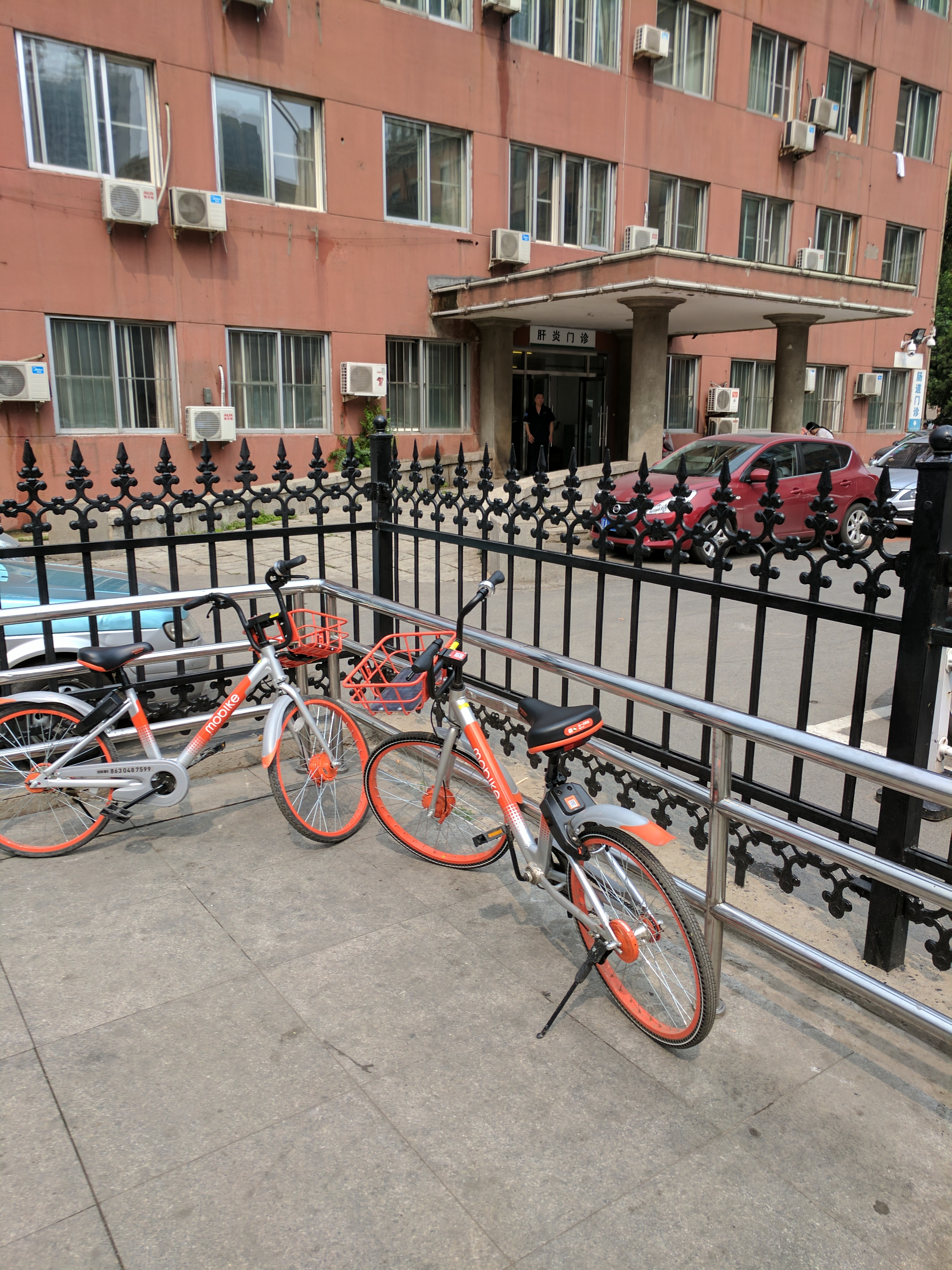 The First Hospital of China Medical University in Shenyang. Photoed on Jul 14th, 2017, the next day Liu Xiaobo dies. Some "Guonei Anquan Baowei", which means secret polices who in charge of political sensitive matters, including Liu Xiaobo's death patrolling here. This building is for hepatitis outpatient, which for deseases on liver, and Liu died from liver cancer.